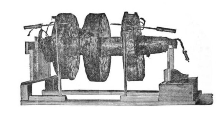 Photo of an early induction coil, built by Irish clergyman Nicholas J. Callan in 1863 at Maynooth College. This was his largest coil, finished just before his death, one of the largest in the world at the time. The iron core was 43 inches (109 cm) long. The secondary windings were 21 inches (53 cm) in diameter and consisted of 150,000 feet of 34 gauge iron wire They were made in 3 separate pancake shaped rings separated by air gaps, so wires carrying large voltage differences would not lie adjacent to each other, reducing the risk of insulation breakdown and arcover. He probably intended to add more secondary windings. At the left end is a vibrating mercury 'contact breaker' in the primary circuit, actuated by the magnetic field in the primary, which interrupted the primary current. When powered by 4 'iron cell' battery cells, it could produce 15 inch (38 cm) sparks, corresponding roughly to a potential of 210,000 volts. Alterations to image: removed caption, which read: "Dr. Callan's large induction coil, completed in 1863, still preserved at Maynooth College".